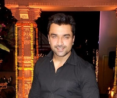 Ajaz Khan at Sachin Joshi's Diwali Party